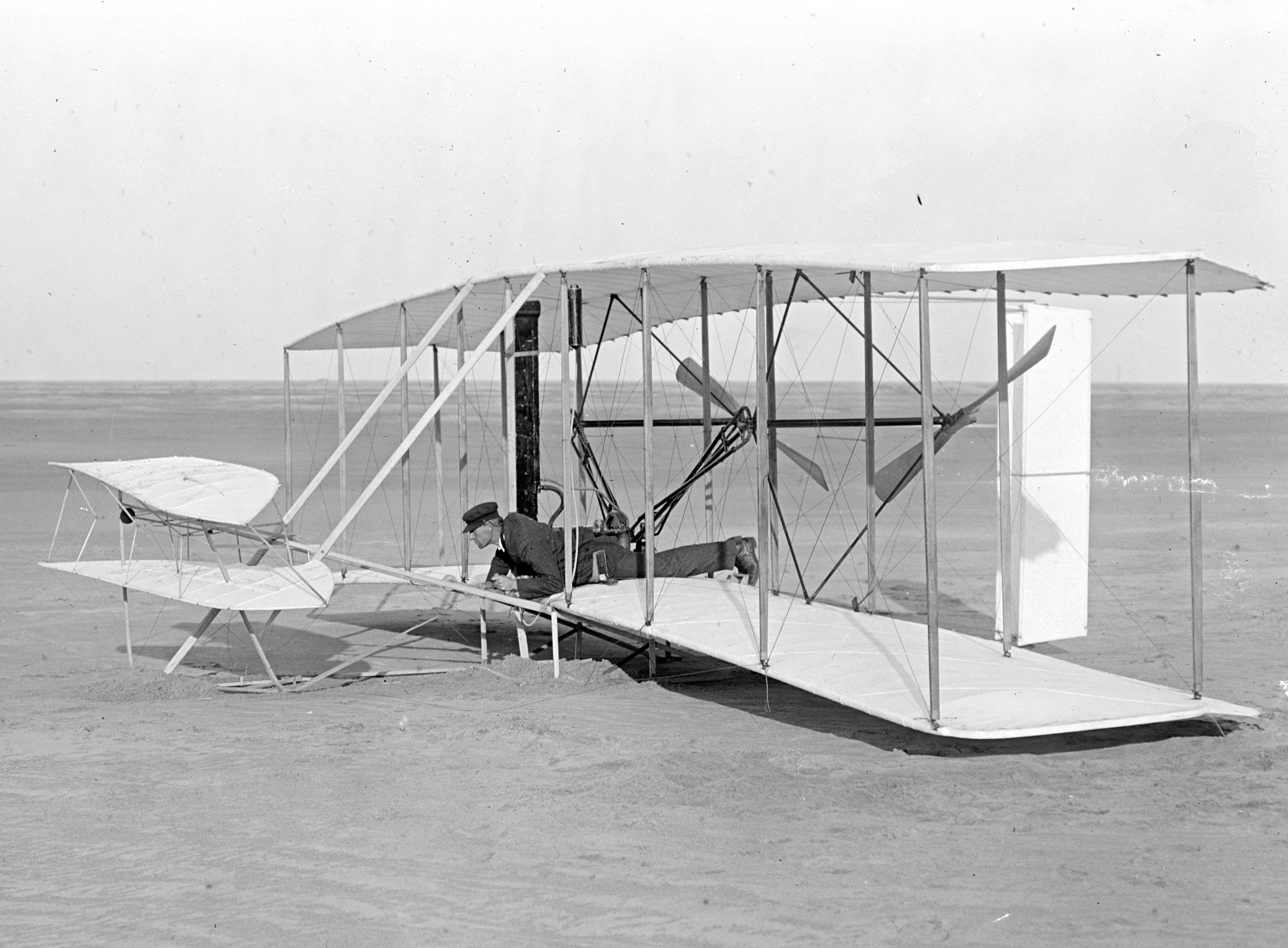 Wilbur Wright at the controls of the damaged Wright Flyer, on the ground after unsuccessful trial of December 14, 1903, Kitty Hawk, North Carolina.